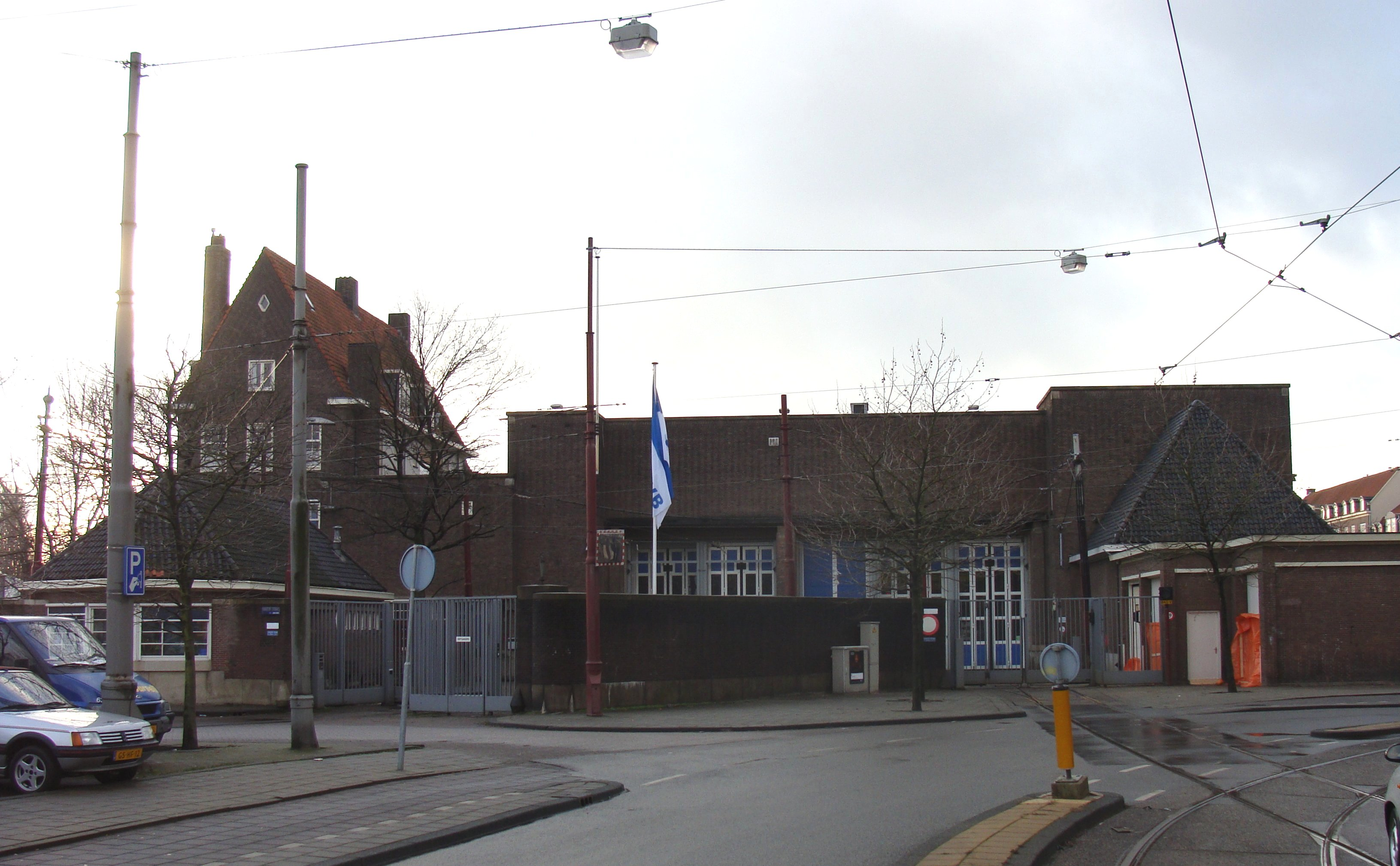 The front of "Remise Havenstraat", a tram depot in Amsterdam